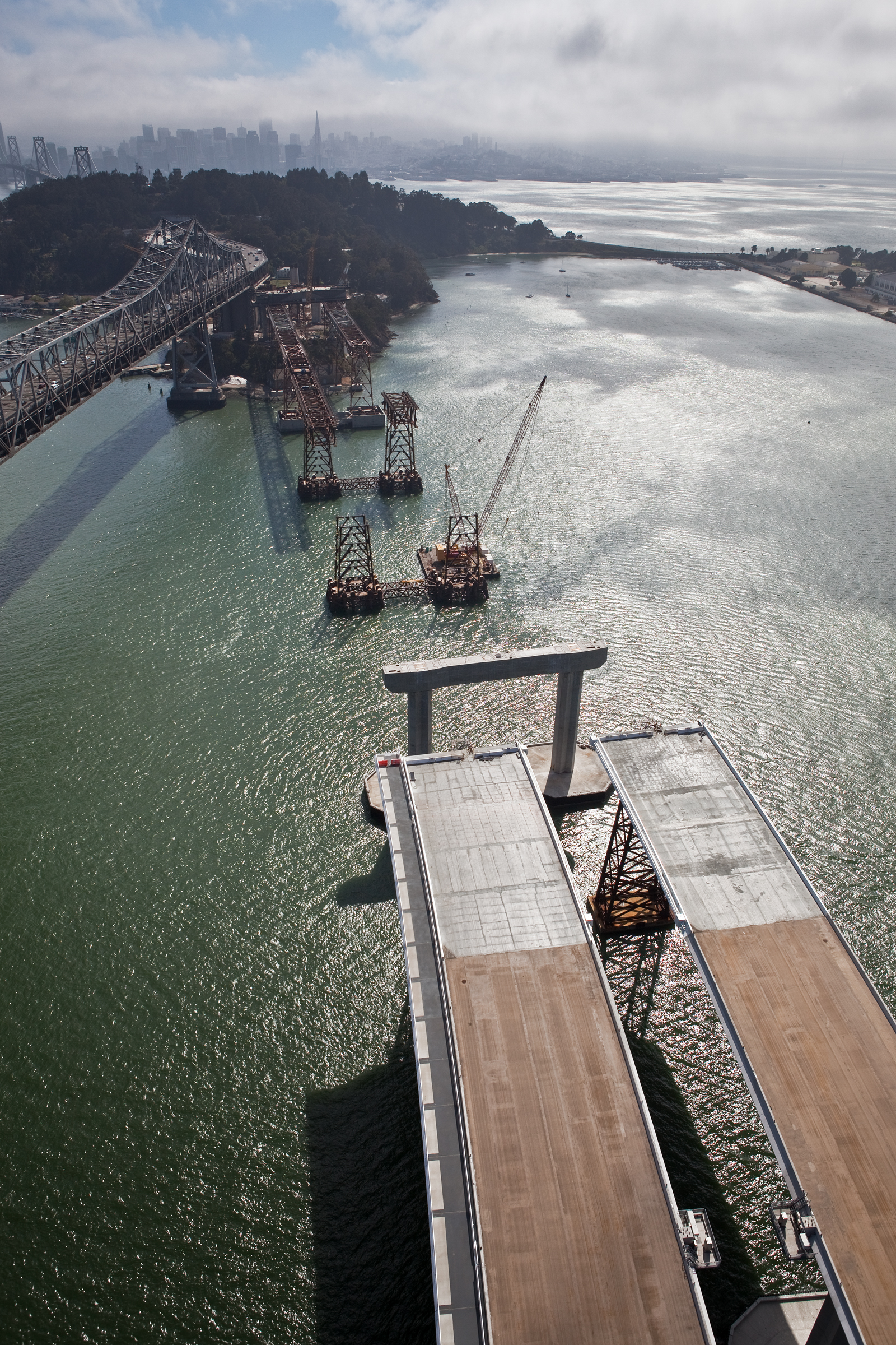 View looking West over the San Francisco-Oakland Bay Bridge replacement bridge under construction.